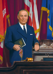 Dewey Jackson Short, US Representative from Missouri